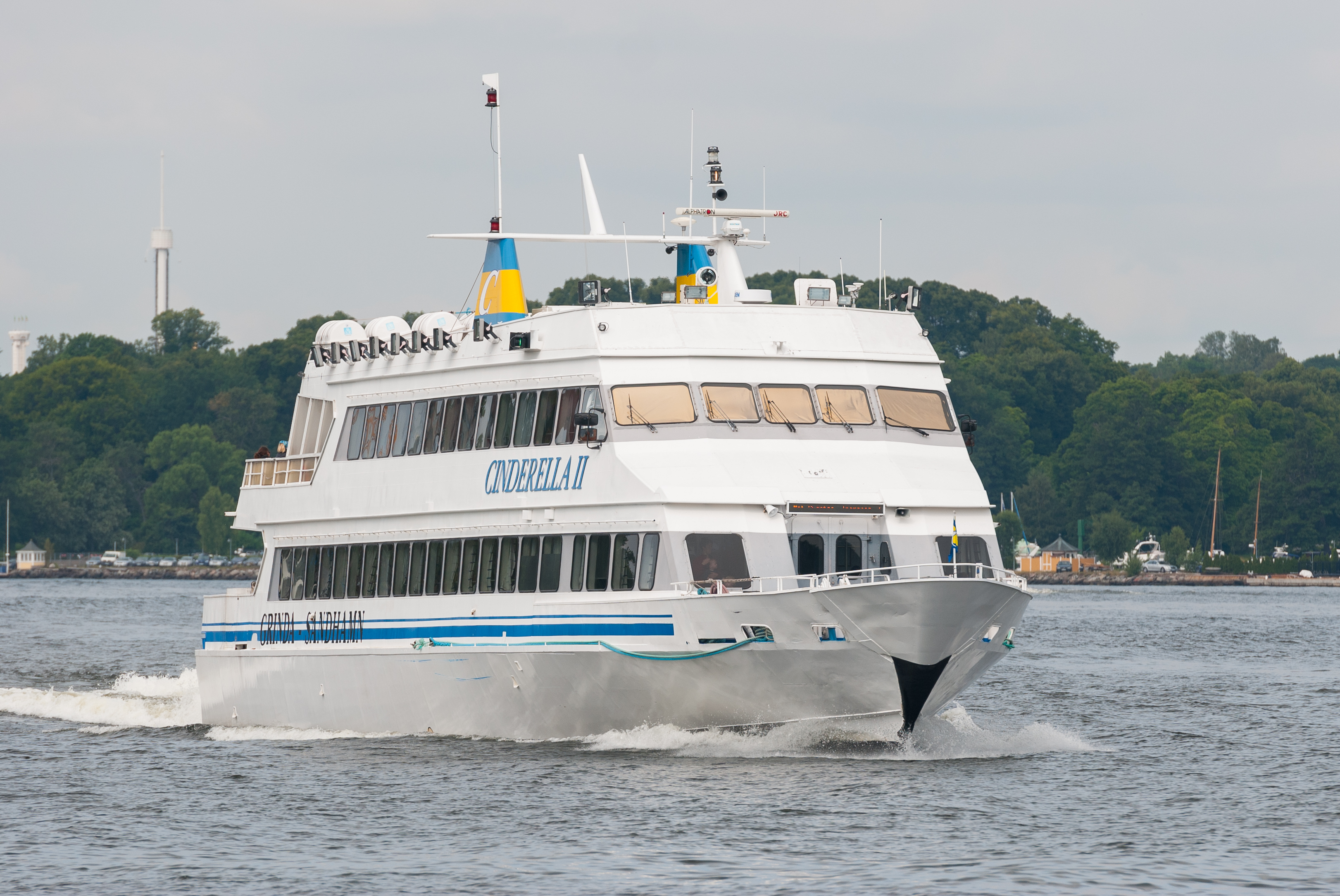 Cinderella 2 outside Nacka Strand, Stockholm.